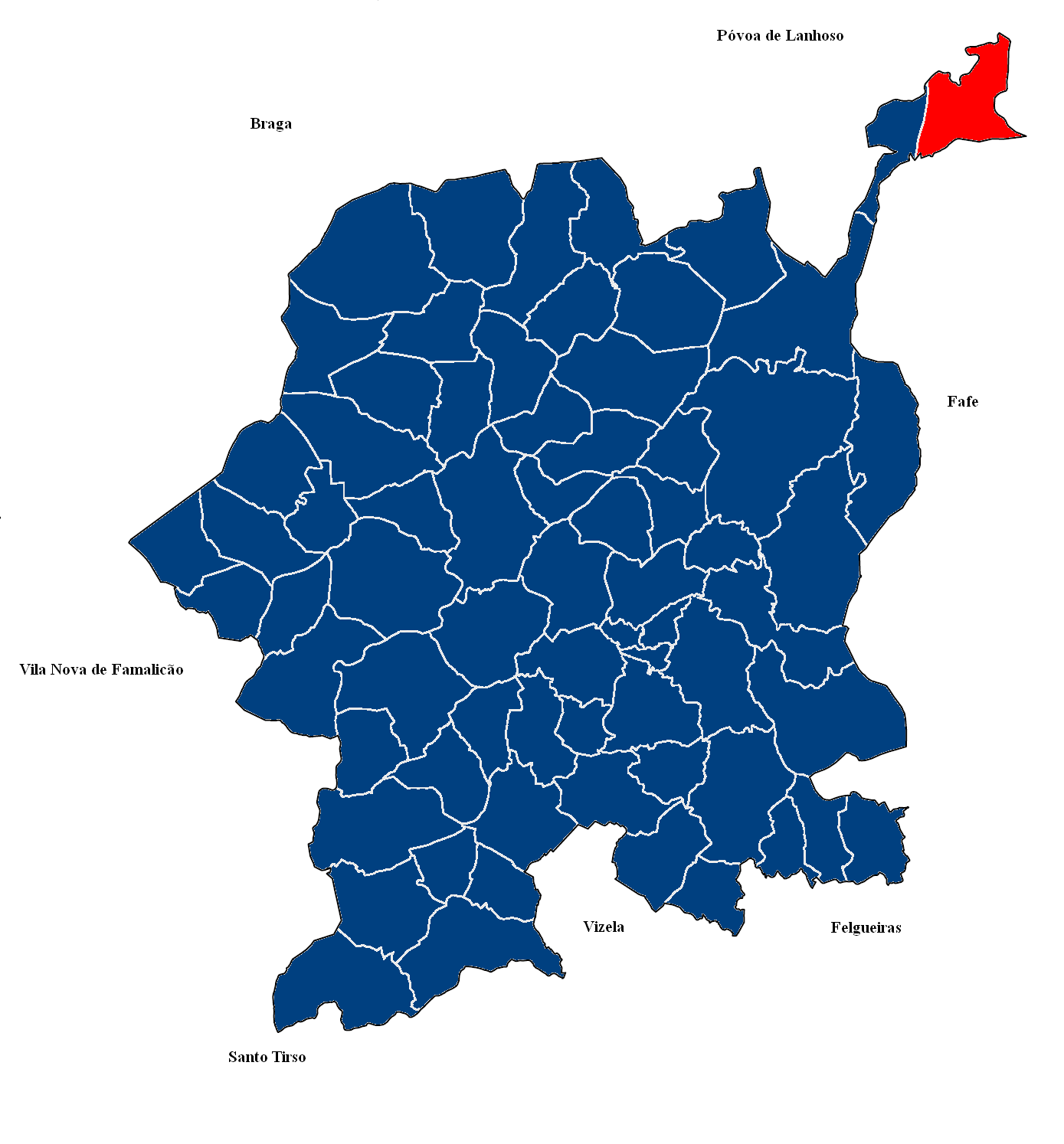 Map of Casteloes parish, Guimarães Municipality, Portugal